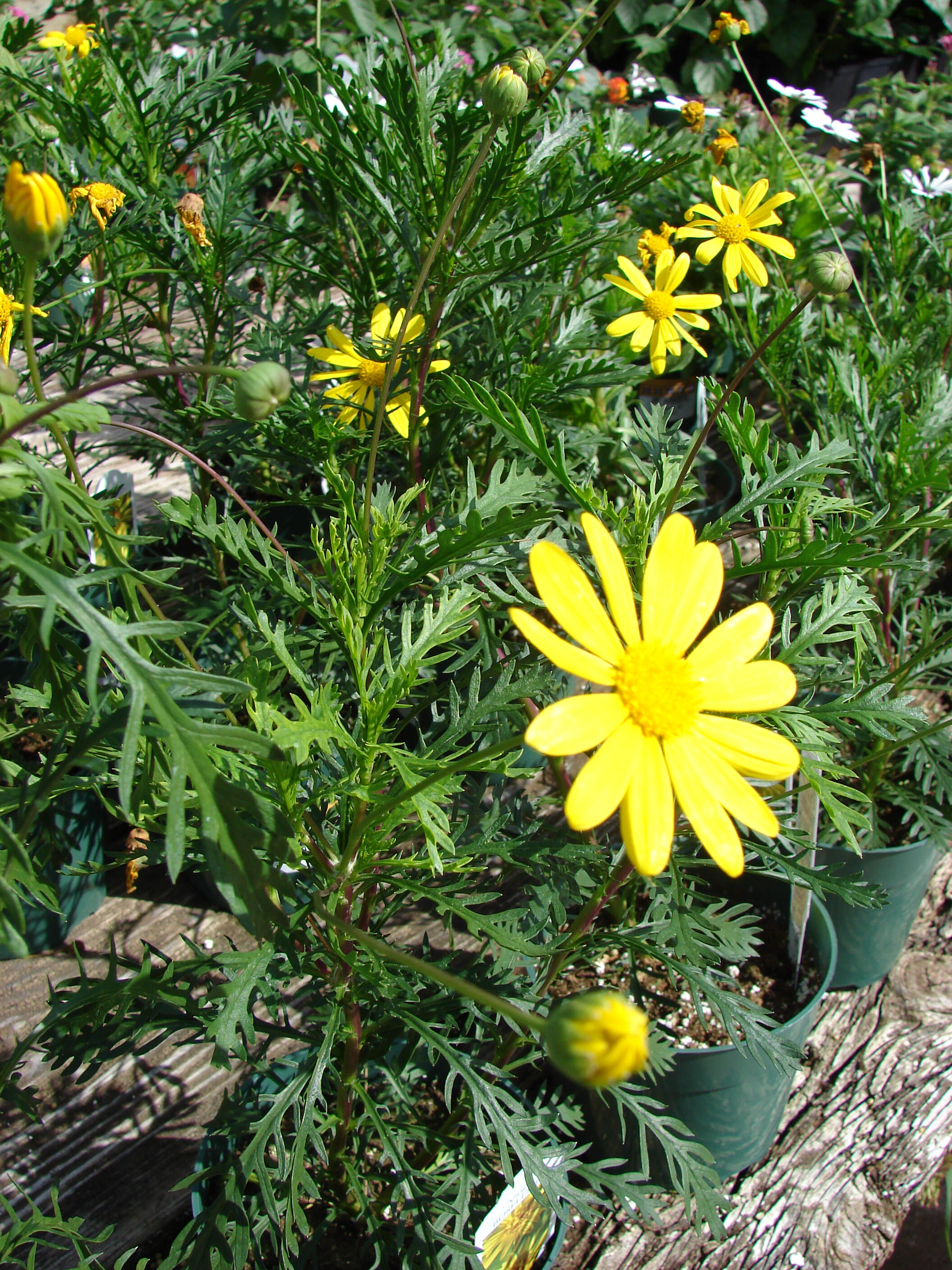 Euryops pectinatus : Virides flowers and leaves